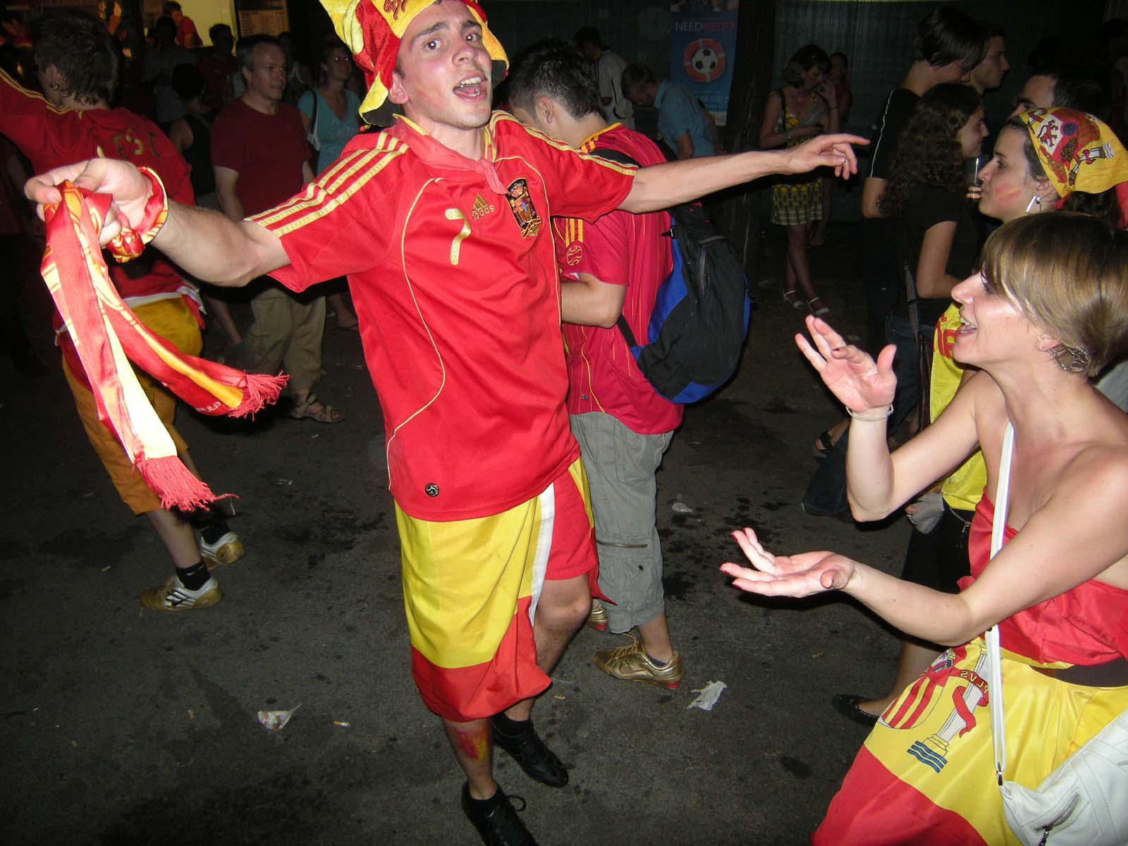 Spaniards dancing in Vienna's main fan zone after their team won the cup.